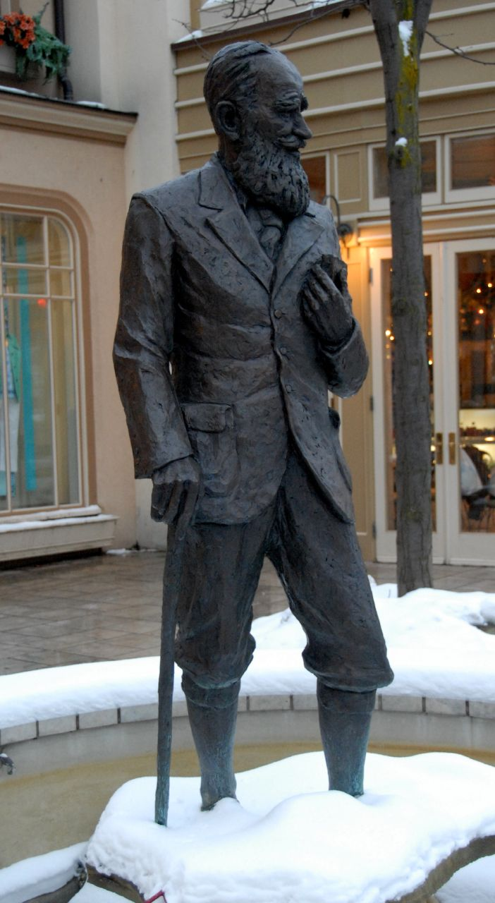 Statue of GB Shaw in Niagara-on-the-Lake where there is an annual Shaw theatre festival.